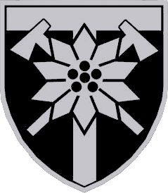 Shoulder Sleeve Insignia, 129th Mountain Assault Brigade